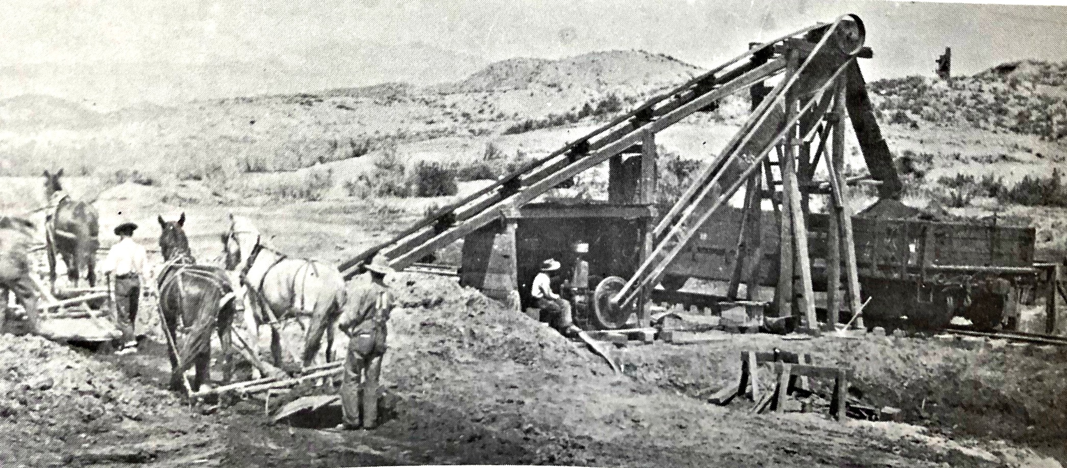 Horse-driven slip scrapers retrieve tailings to dump onto a conveyor and then dropped into a freight car. Before 1880